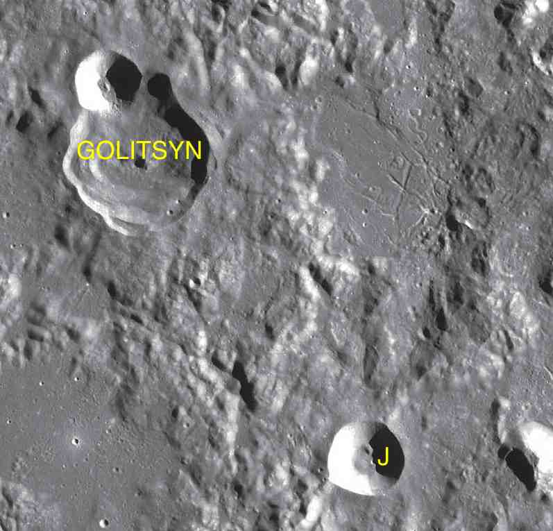 Part of the chart LAC-108 used for the presentation